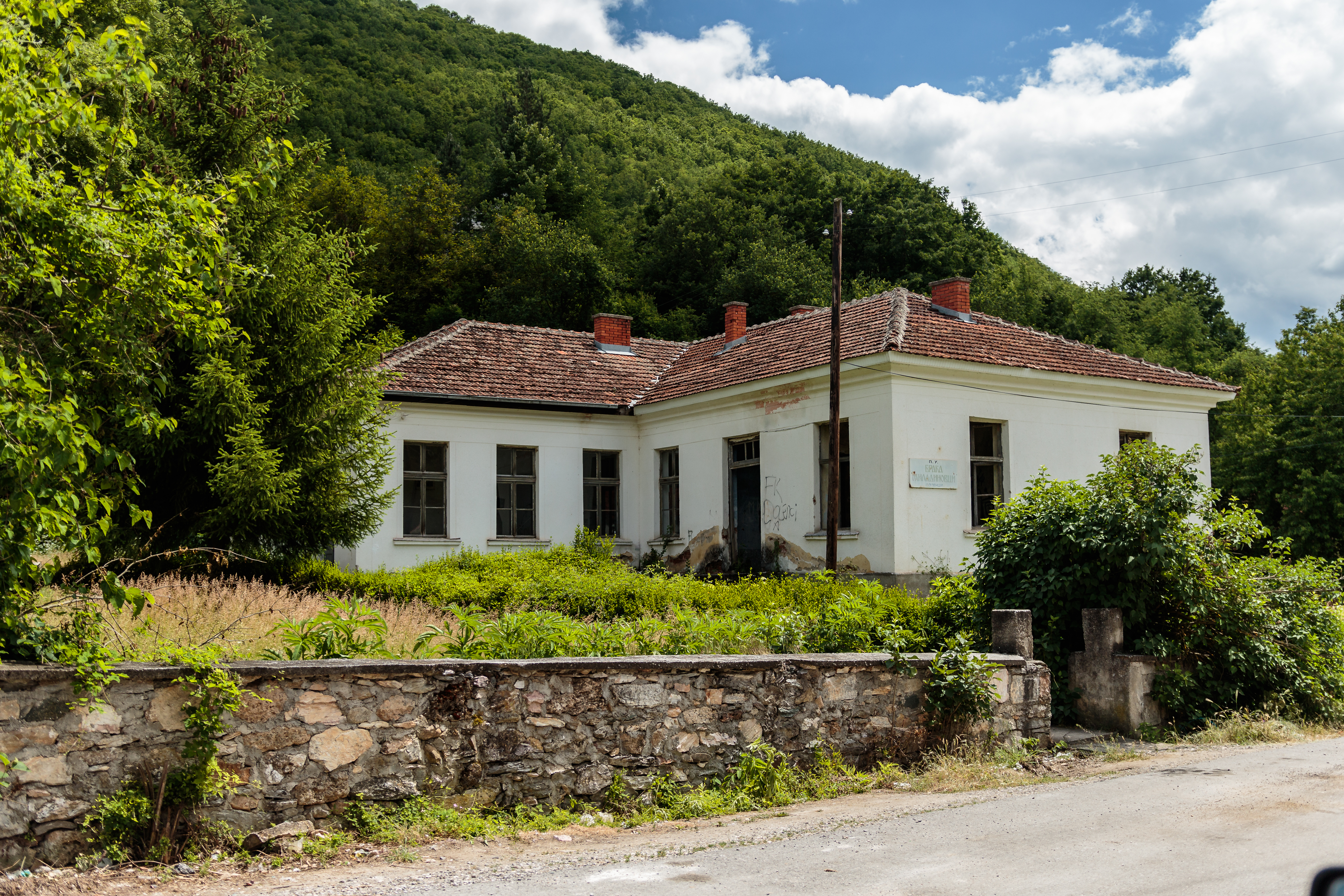 Former primary school in the village Dolenci